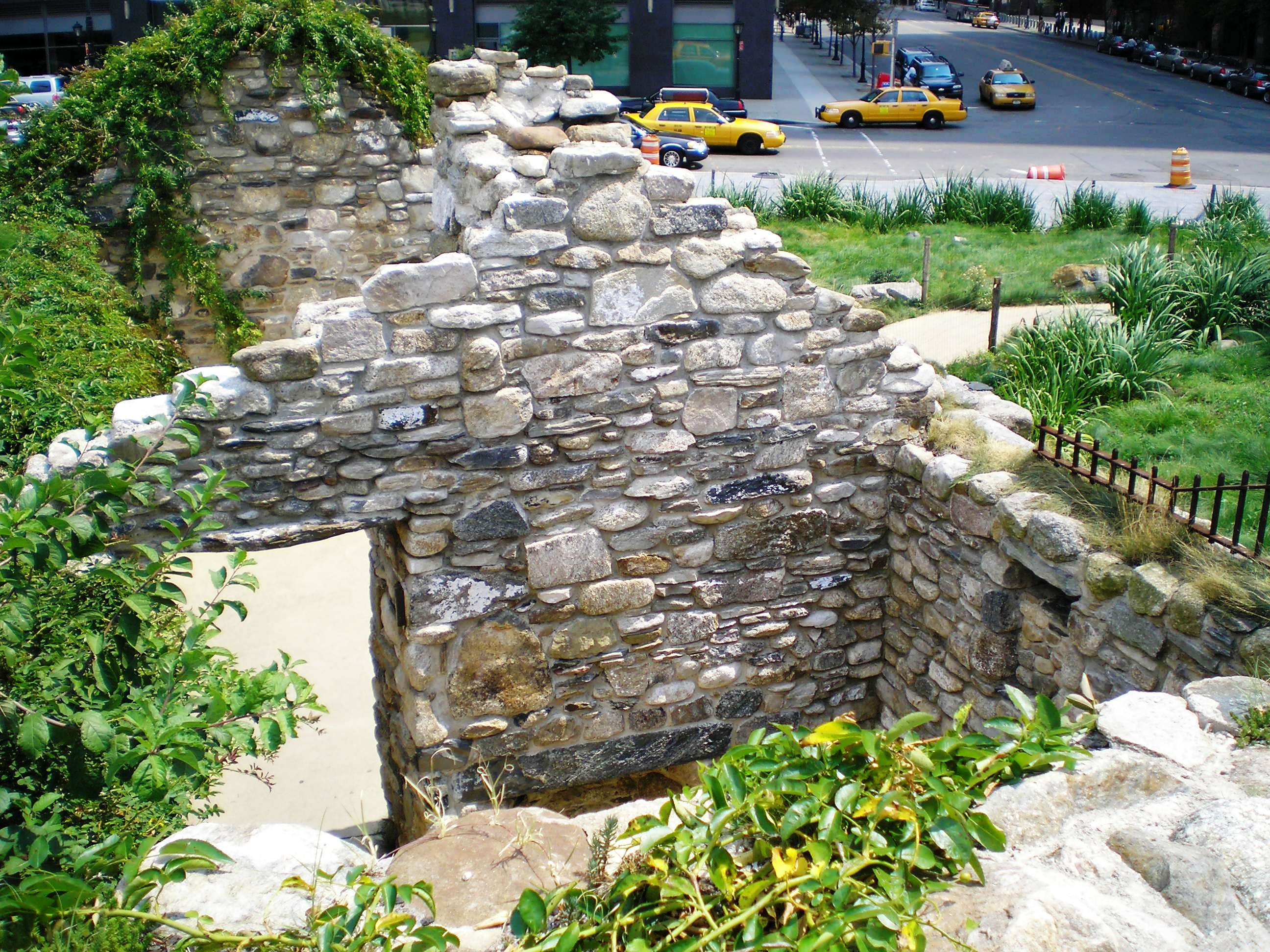 Irish Hunger Memorial, 20 August 2006. New York City.